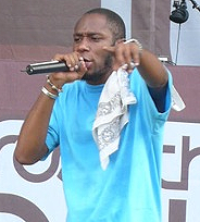 Crop of Image:Mos Def.jpg. Cropped and sharpened in photoshop